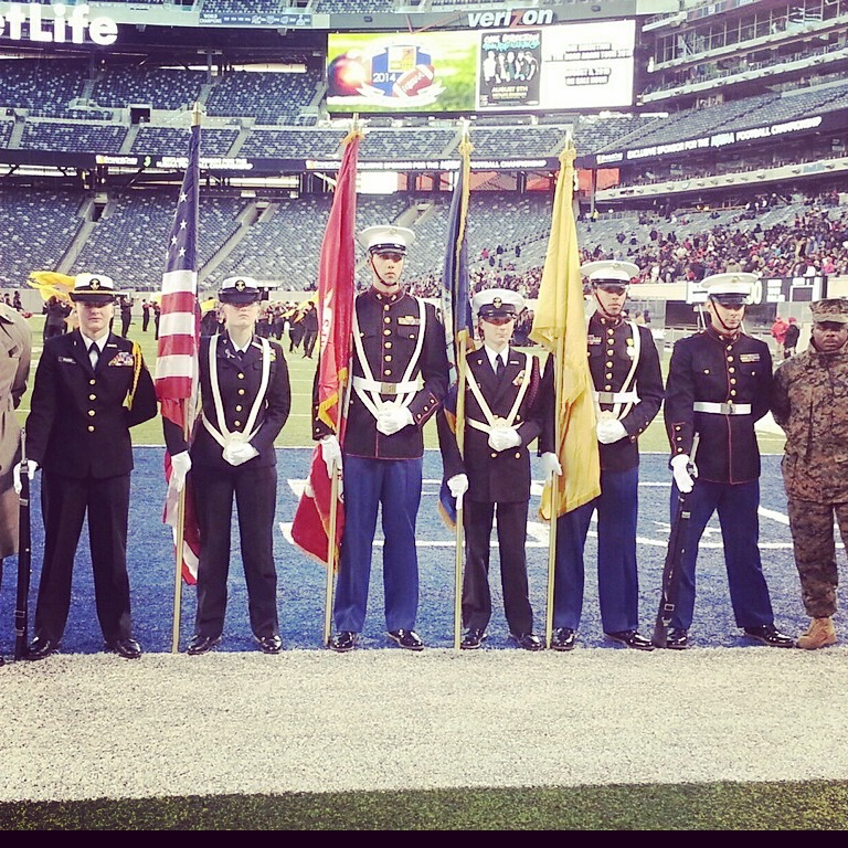 Cadets from MCJROTC and NJROTC hold a joint color guard at MetLife Stadium.